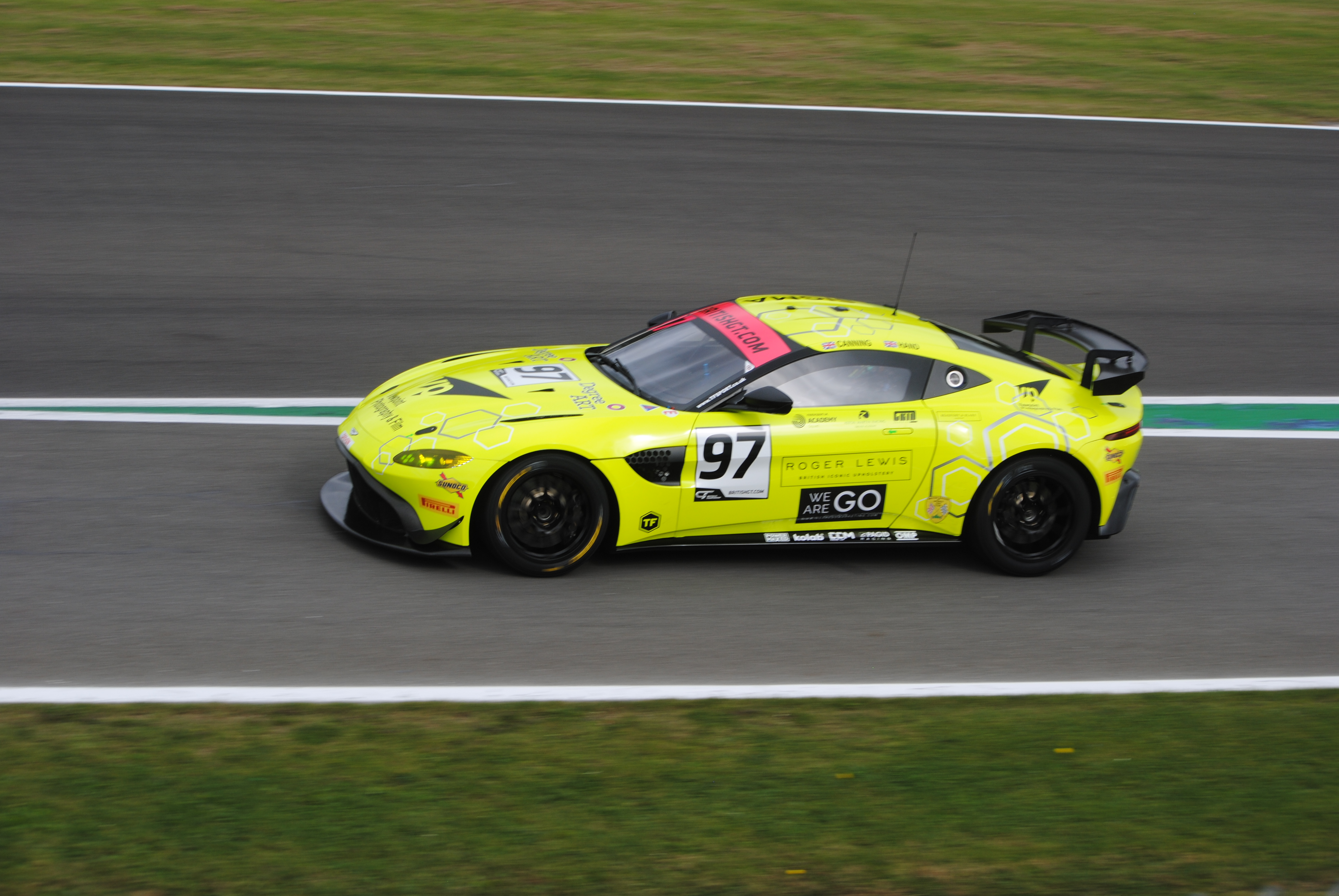 The 2019 GT4 champions at Donington Park, Tom Canning and Ash Hand, clinching the title by eight and a half points ahead of Sebastian Priaulx and Scott Maxwell in a Mustang.